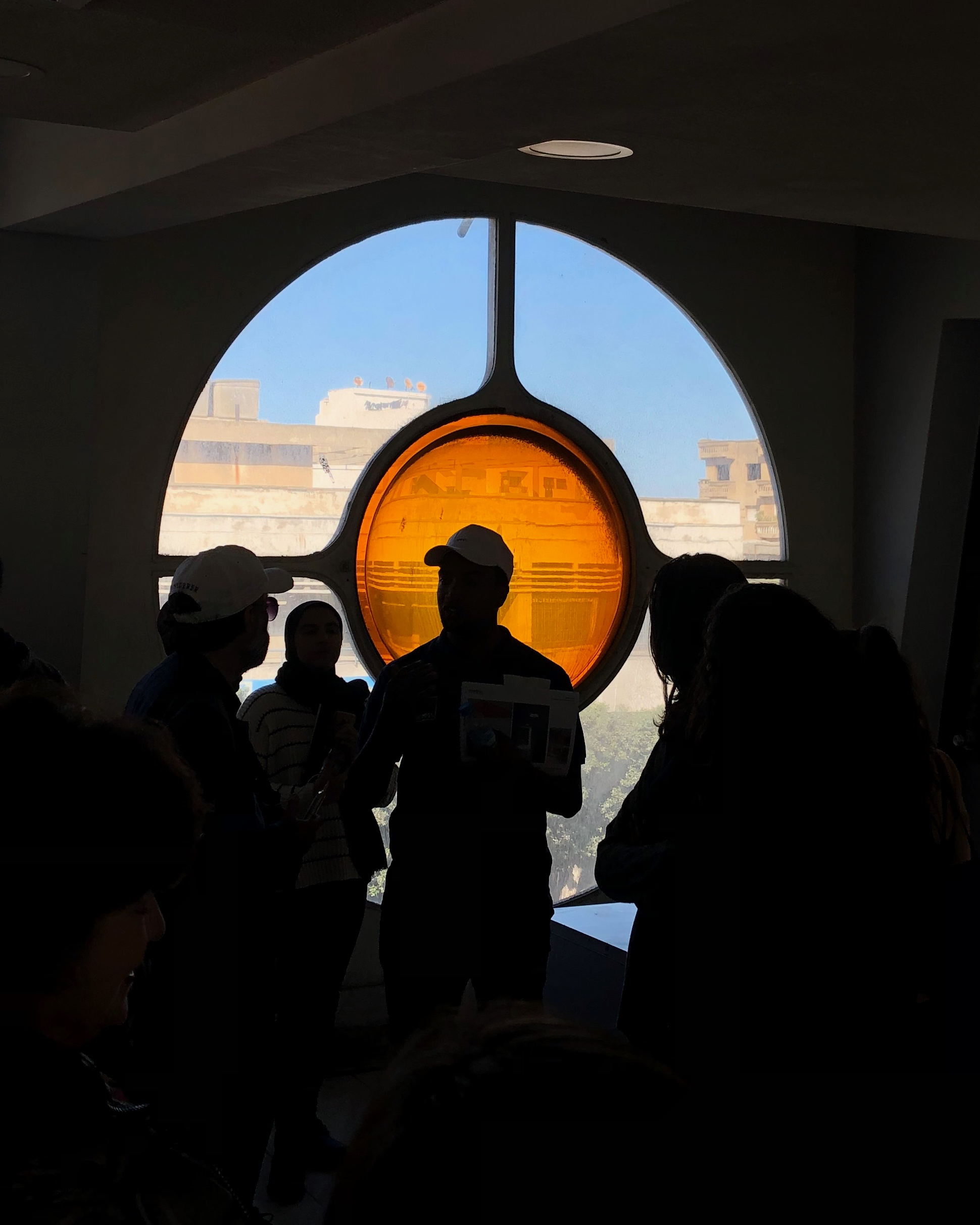 Vincent Timsit Workshop (VÉTÉ) Blvd. Moulay Ismail Casablanca, Morocco Jean-François Zevaco 1952